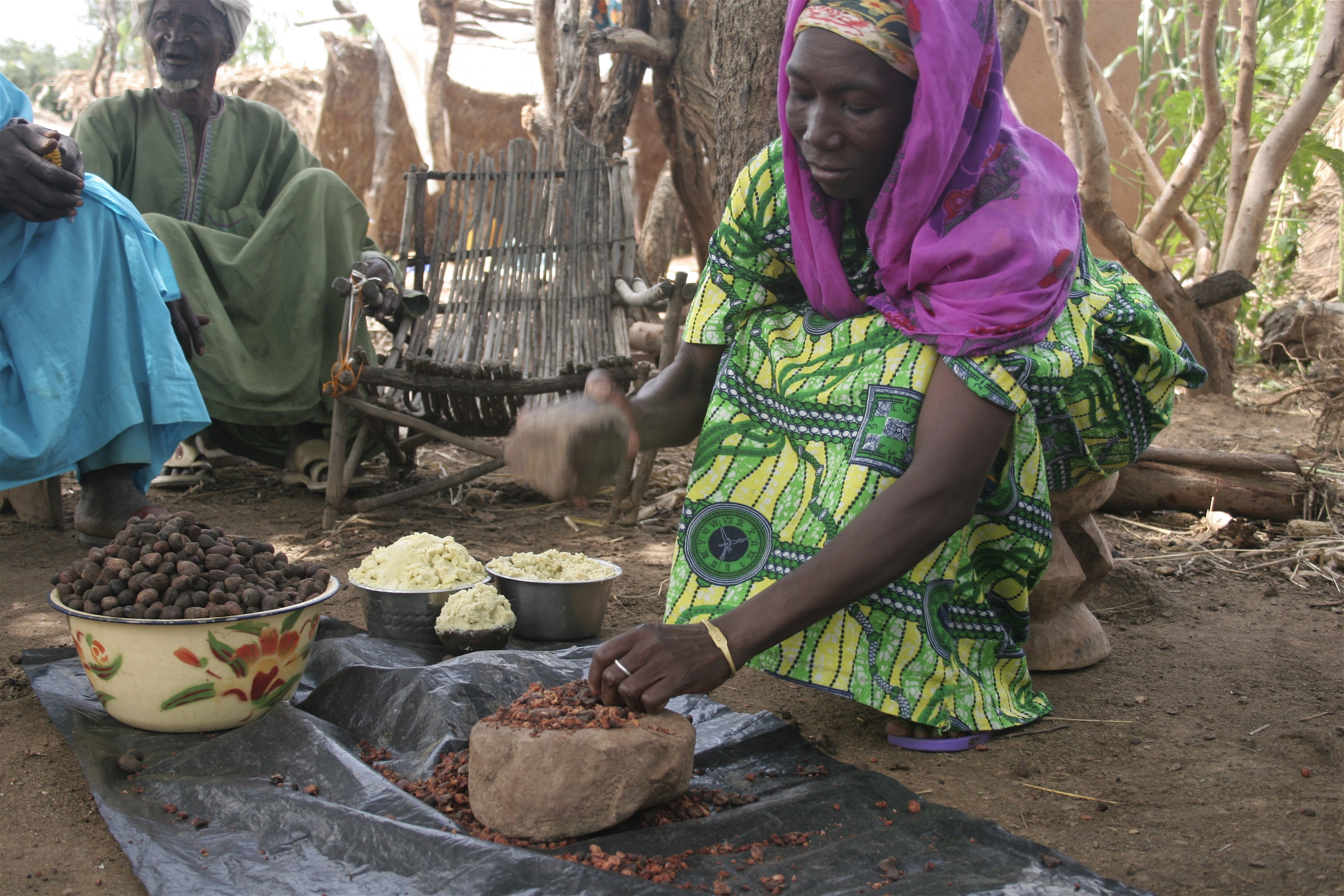 A woman processes Shea tree nuts into Shea butter. Shea butter comes from the nuts of the Shea tree (Parkia biglobosa), and for women in poor rural communities it can provide a pathway out of poverty.